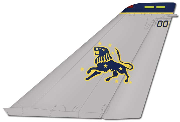 The tail of a US Navy F-14D Tomcat, belonging to VF-213, the "Blacklions". Original created in Adobe Photoshop by Erik Hess in 2004.